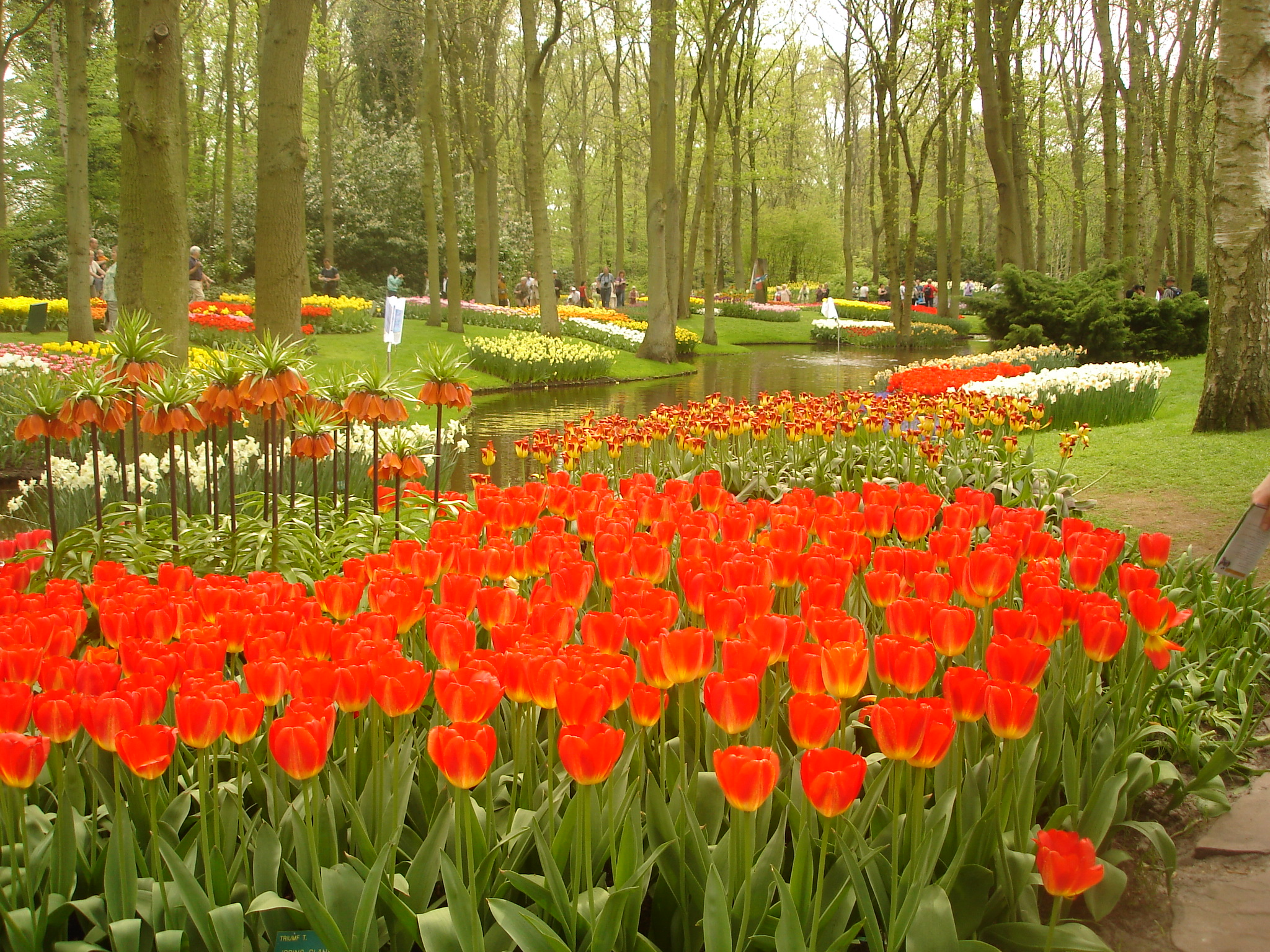 Tulip flowers at the Keukenhof garden - Lisse, The Netherlands